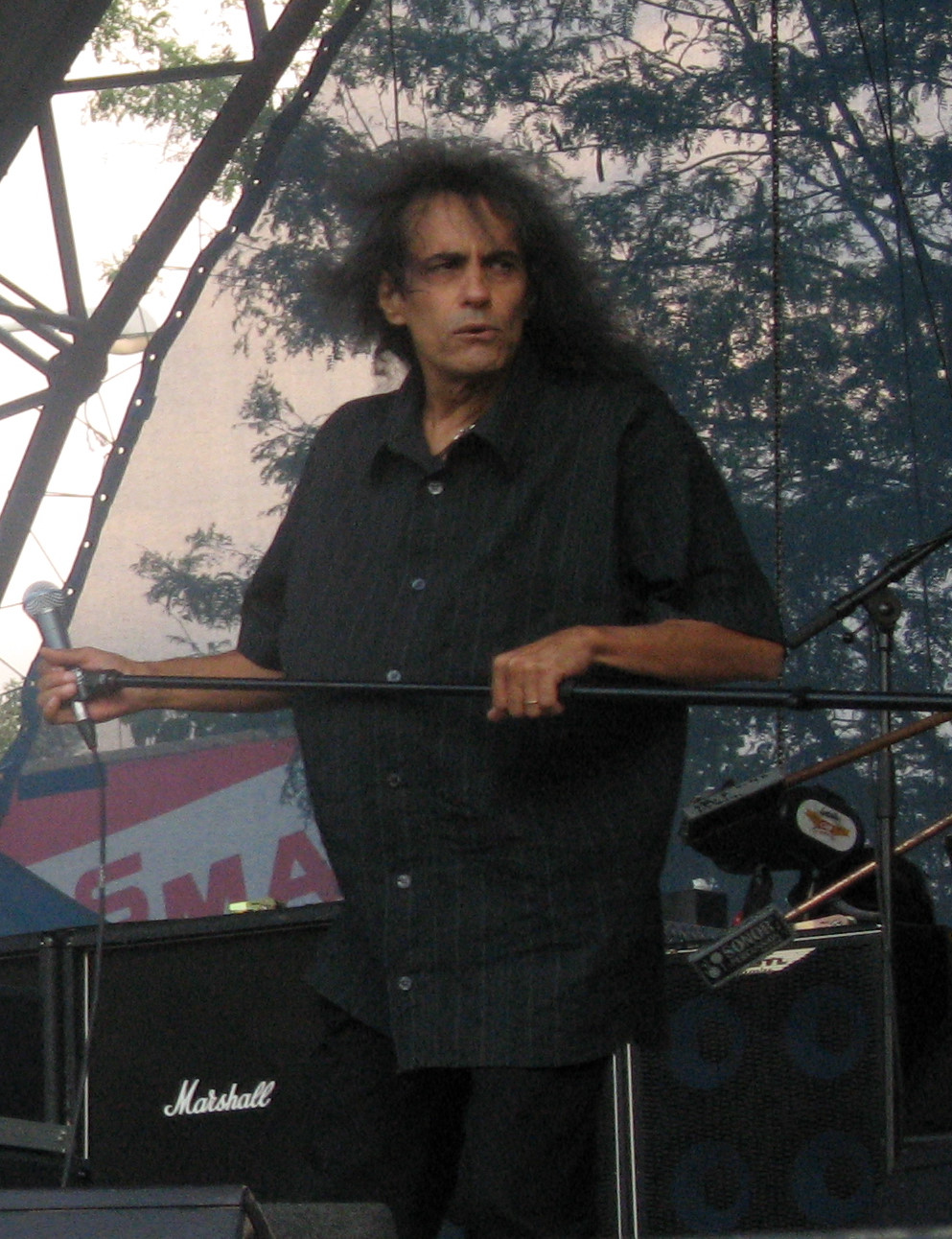 The Romanian rock vocalist Cristian Minculescu, performing in a concert with Iris.